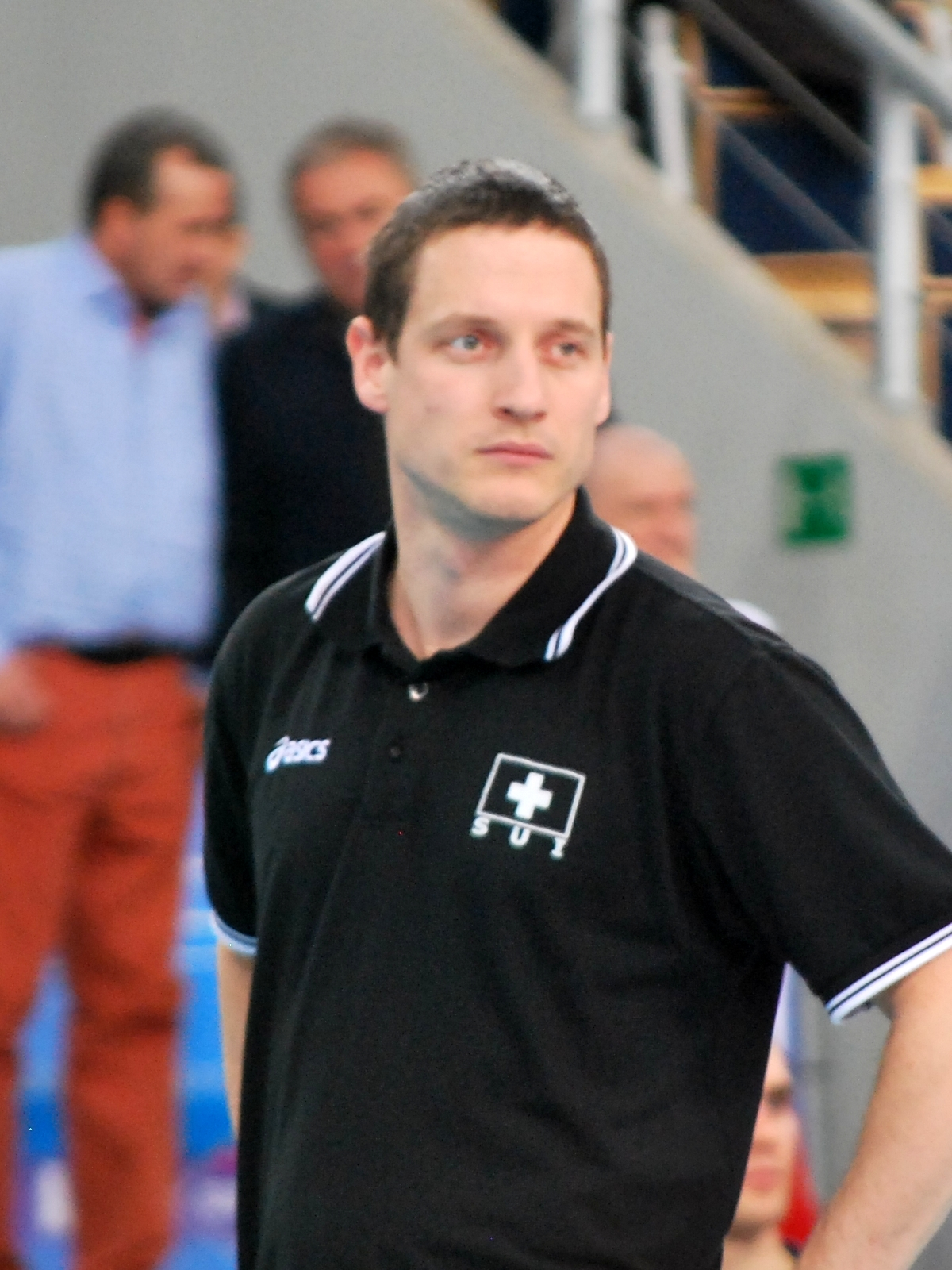 FIVB World Championship European Qualification Women Łódź January 2014. Timothy Lippuner - coach of national team of Switzerland